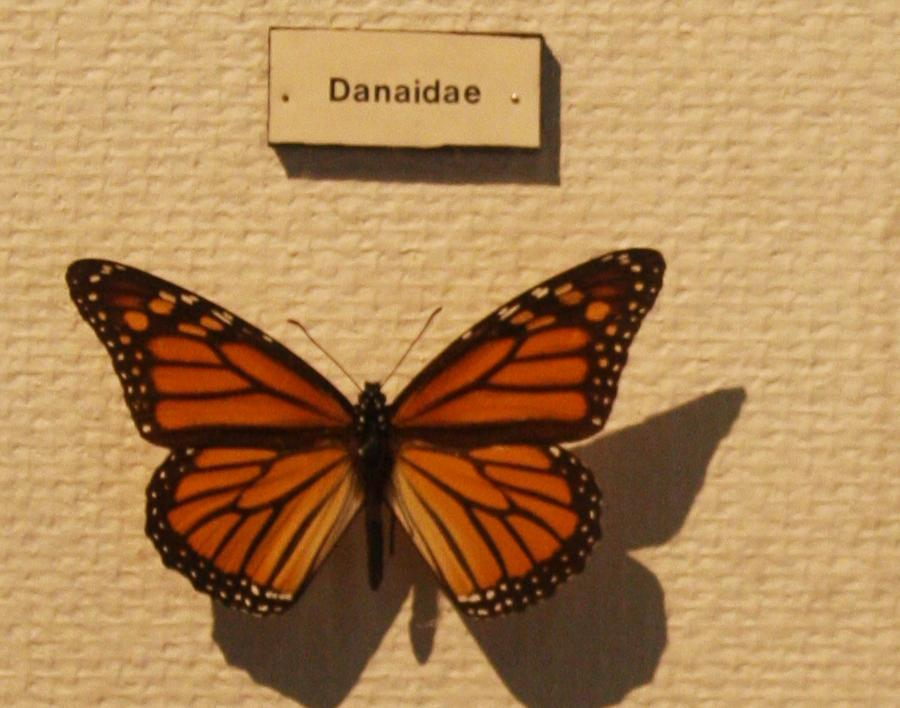 Danaidae, or Danainae, specie at University of Oslo: Bothanical Museum